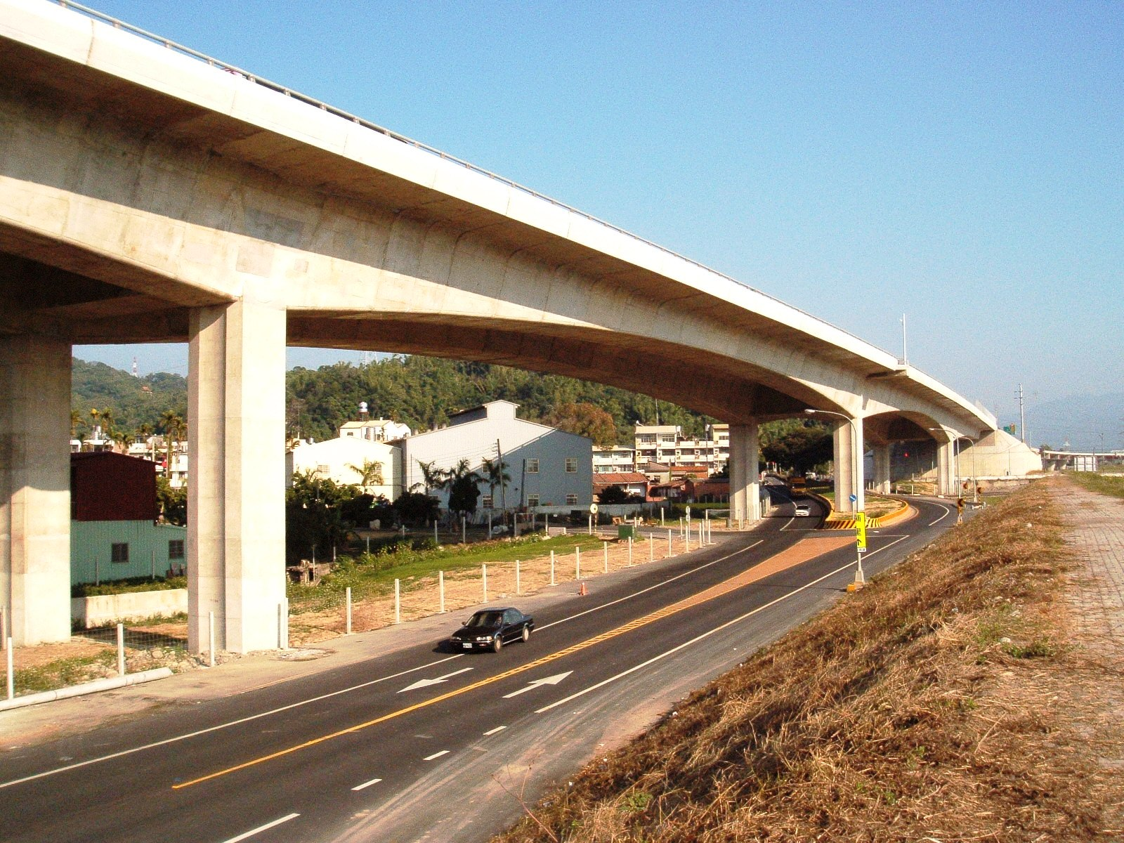 Planned Site of an Wusi Bridge Interchange（also called Jiuzheng Interchange）at National Highway No.6,its located Jiu-Zheng in Wufeng,Taichung.The picture right shows Wu River.